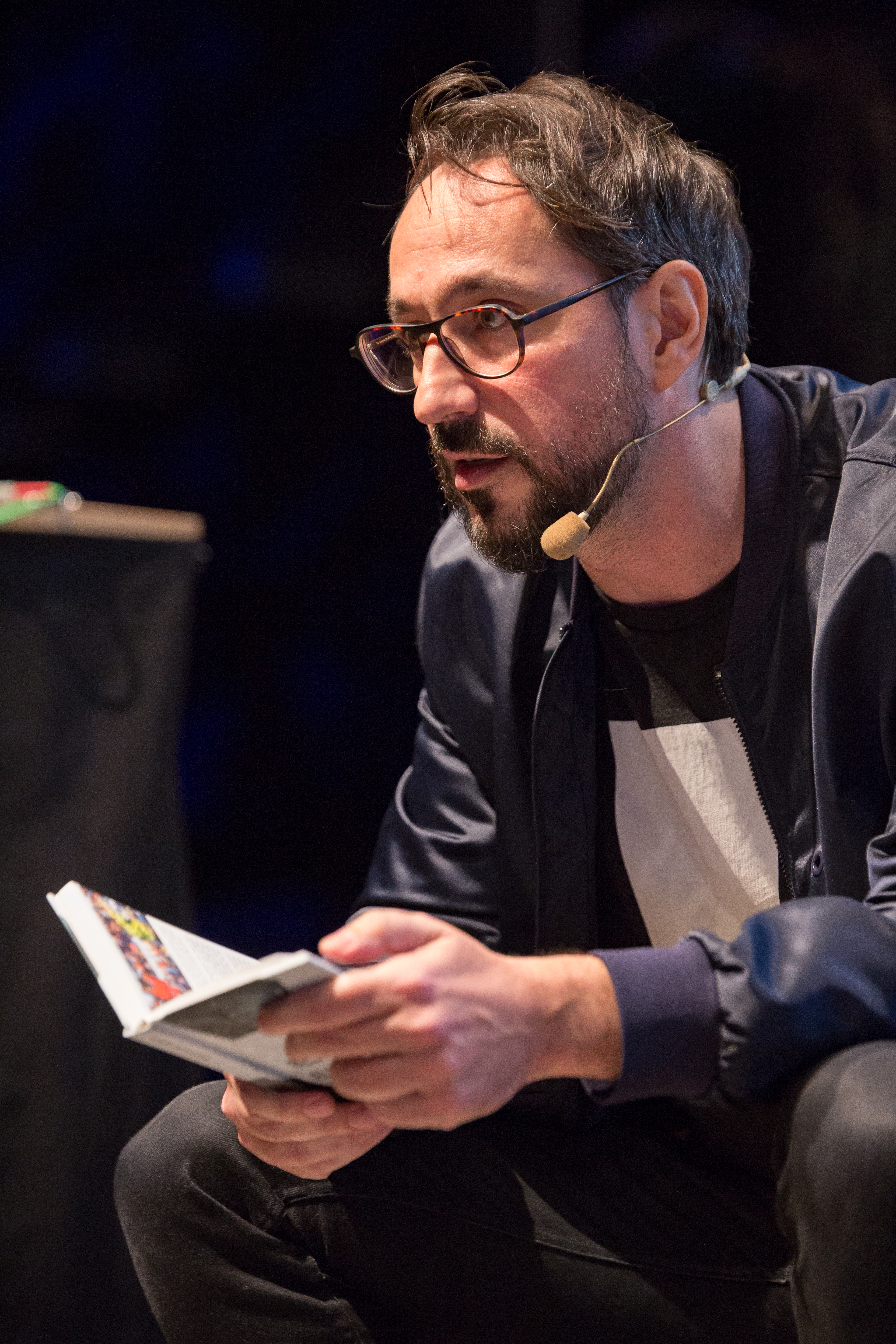 Fons Hickmann reads from his Book Das beste Spiel aller Zeiten at the See-Conference 2016 in the Schlachthof Wiesbaden